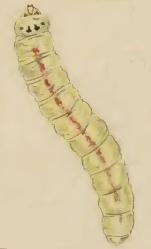 Stainton’s Natural History of the Tineina (1855–1873): Parornix torquillella